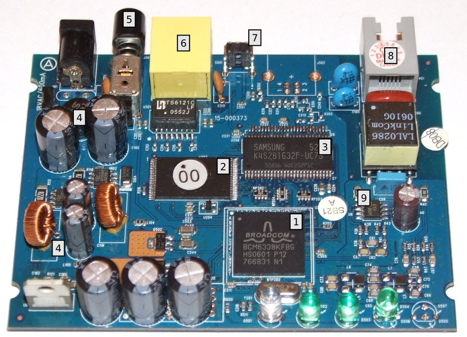 PCB of the DSL modem Thomson Speedtouch 516i1 Broadcom ADSL/ADSL2(+) One Chip Solution with integrated MIPS32 CPU2 Flash memory with firmware3 128 MBit SDRAM4 Power Supply5 Power Switch6 Ethernet Socket7 Reset8 ADSL Socket9 ADSL driver IC(?)